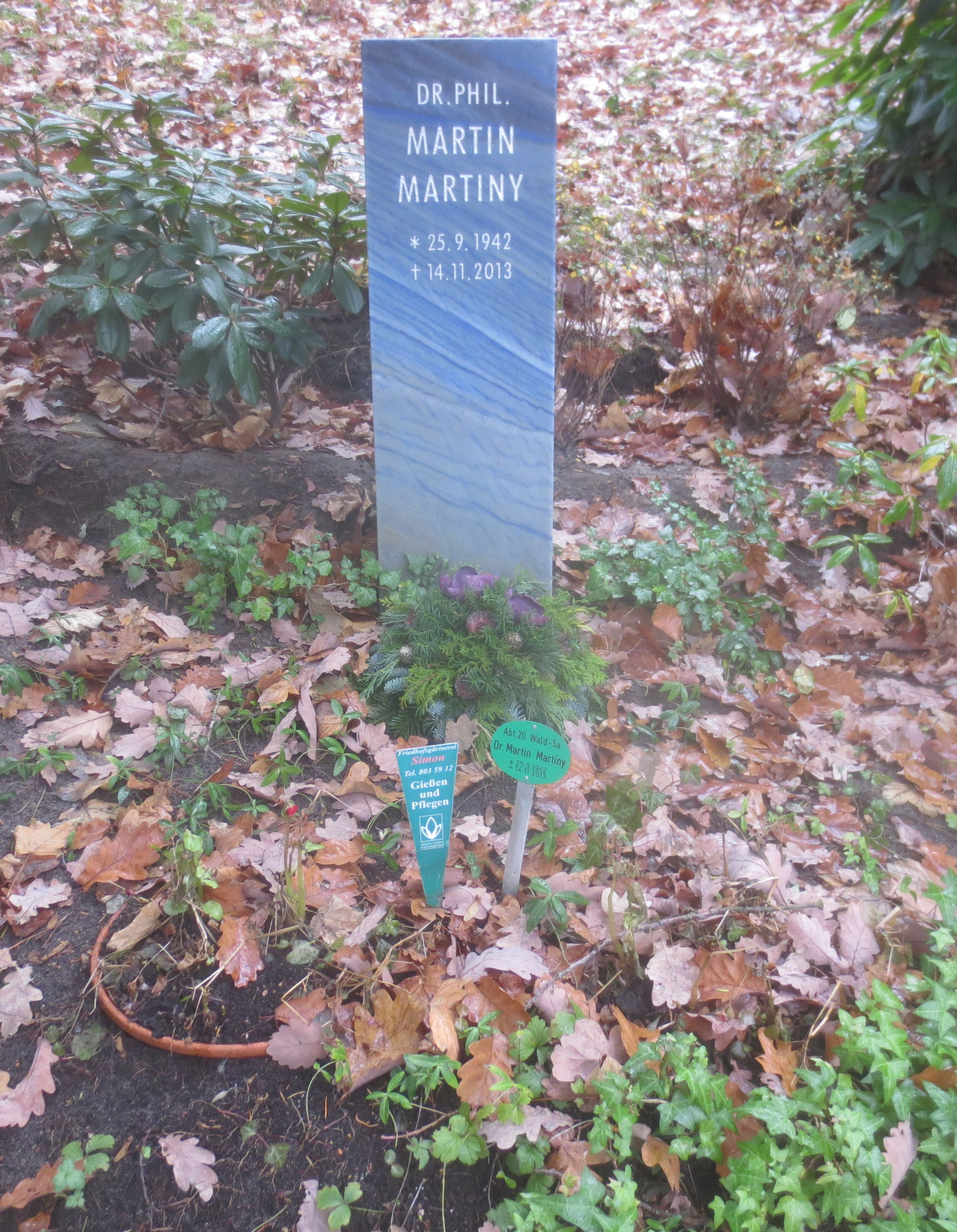 Grave of the sociologist and manager in the energy industry Martin Martiny (1942-2013) on the Friedhof Heerstraße cemetery in Berlin-Westend (grave site: 20-Wald-5a).